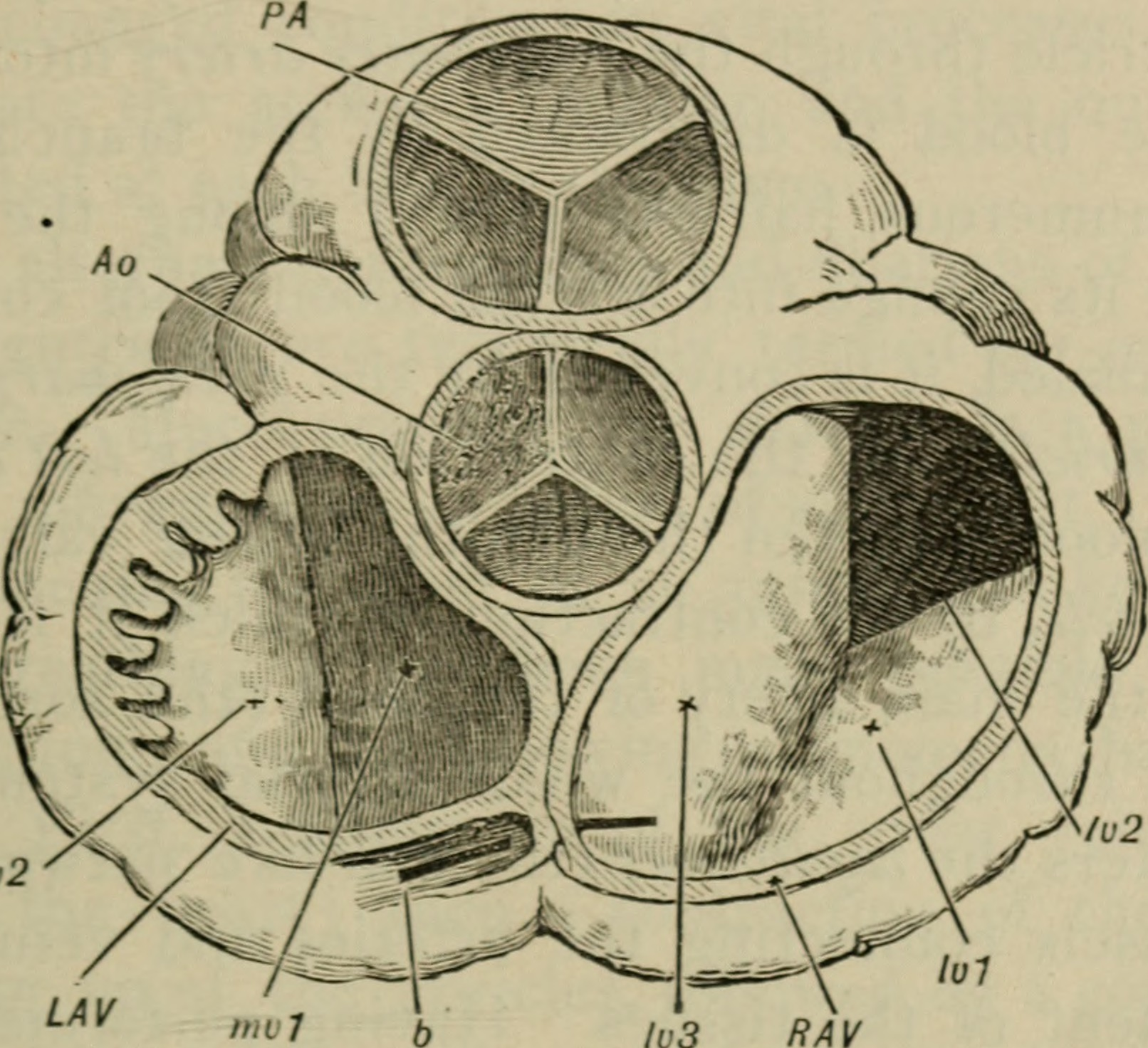 Title: An academic physiology and hygiene .. Year: 1903 (1900s) Authors: Brands, Orestes M. (from old catalog) Van Gieson, Henry C., (from old catalog) joint author Subjects: Hygiene Physiology Publisher: Boston, B. H. Sanborn & co Text Appearing Before Image: Fig. 31. Interior of the Right Side of the Human Heart. EXPLANATION. i, superior vena cava ; 2, inferior vena cava ; 3, interior of the right auricle ; 4, semi-lunar valves of the pulmonary artery ; a?, papillary muscle ; 5, 5, and 5, cusps of the tri-cuspid valve ; 6,pulmonary artery ; 7, 8, and 9, the aorta and its branches ; 10, left auricle;11, left ventricle. is especially true of the left ventricle, whose work it is topropel the blood through the whole system. THE BLOOD AND ITS CIRCULATION. 85 10. Besides the valves already mentioned, there are also valves in the aorta (the main trunk of the arterial system),and in the pulmonary artery (the artery conveying bloodto the lungs). nw2 Text Appearing After Image: Iu3 RAV Fig. 32. The Orifices of the Heart seen from above, the Auricles and Great Vesselsbeing cut away. EXPLANATION. P. A, pulmonary artery, and Ao, aorta, with their semilunar valves. R. A. !r., right ■ do-ventricular orifice, showing the three folds (/v, 1, 2, 3) of the tricuspid valve. L. A. I., left auriculo-vcntriadar orijice, showing its mitral valve of IWO flaps at ;//. v., 1 and 2. A piece of whalebone at b passes into the coronary vein. The tooth-like appeafiUM * the left side of L. A. I, is due to the fact that the section of the auricle is carried through -een on the exterior surface of the heart. 11. In a healthy condition of the heart, all of thesevalves work harmoniously and perfectly; but in certain _ mic dis they become deranged, thus leading to and often fatal results. 12. Course of the Blood in Circulation. — The minute veinsin all parts of the body collect the impure blood. Thveinlets unite and form larger branches which finally oil- 86 ACADEMIC PHYSIOLOGY. mi